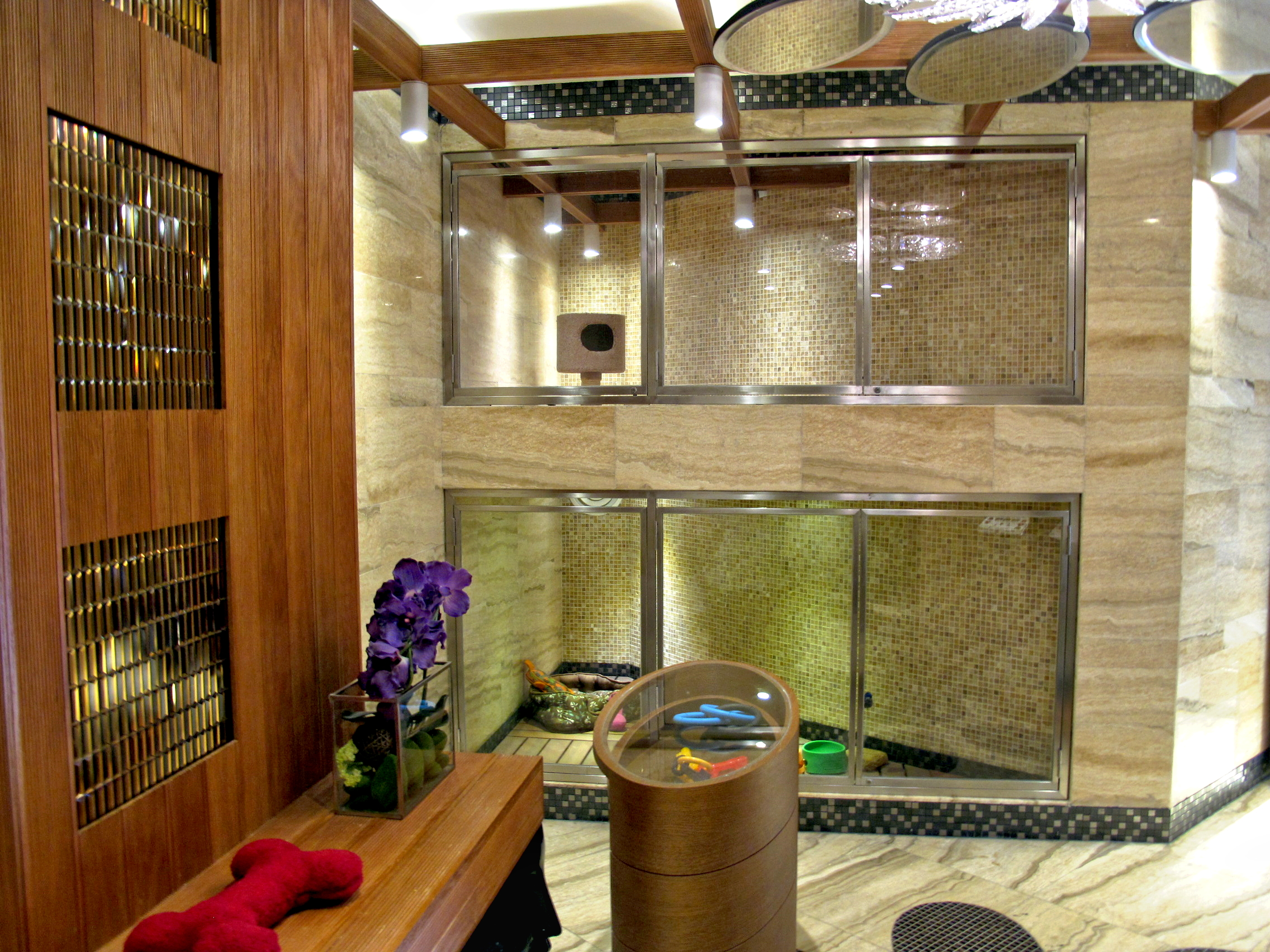 Uptown Club CASA Petland